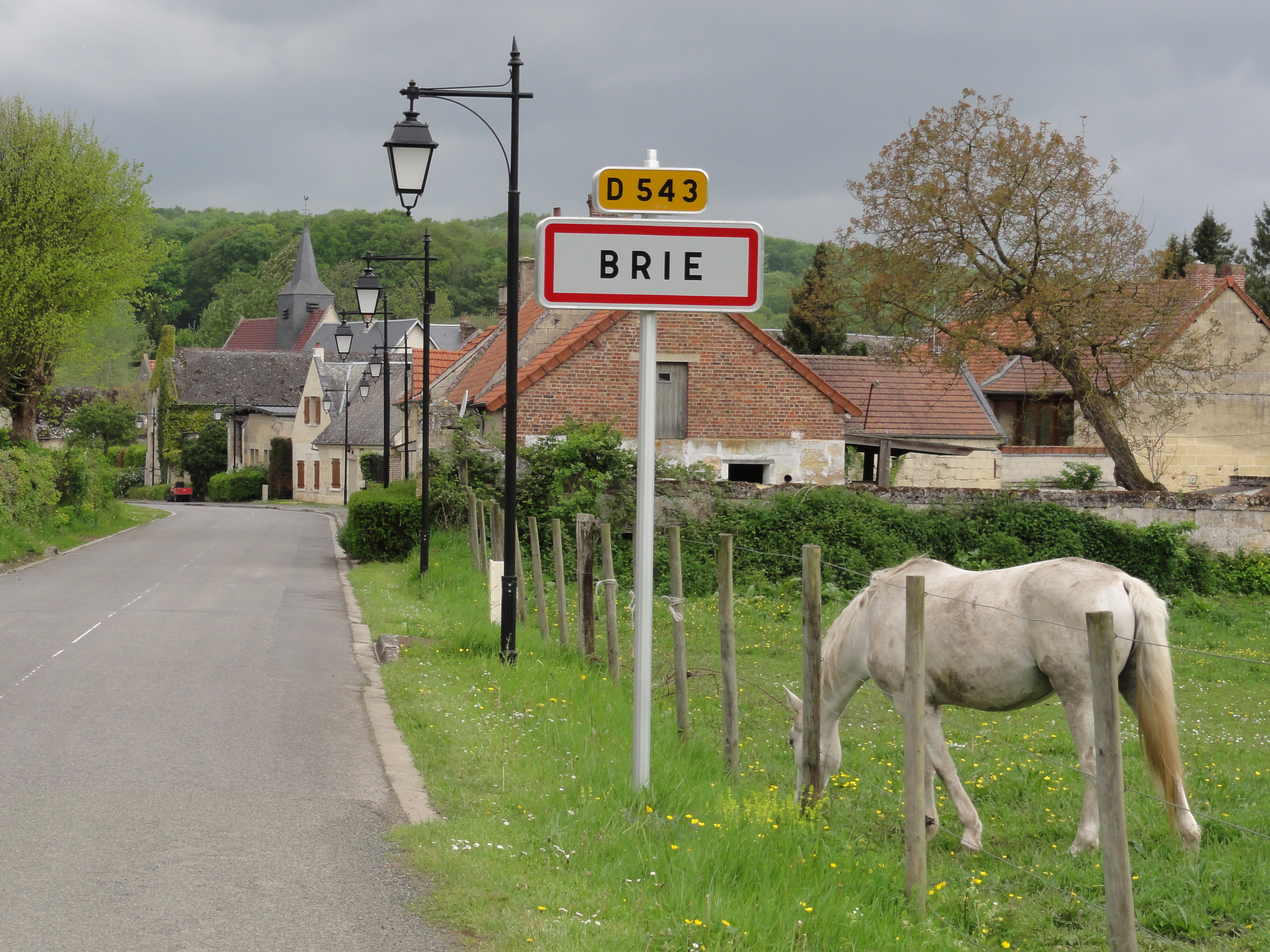 Brie (Aisne) city limit sign